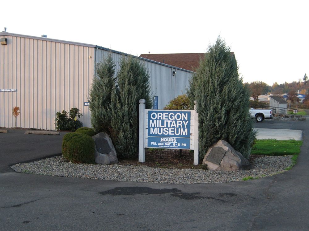 Camp Withycombe Military History Museum. Photo by John Stanton 10 Nov 2007.